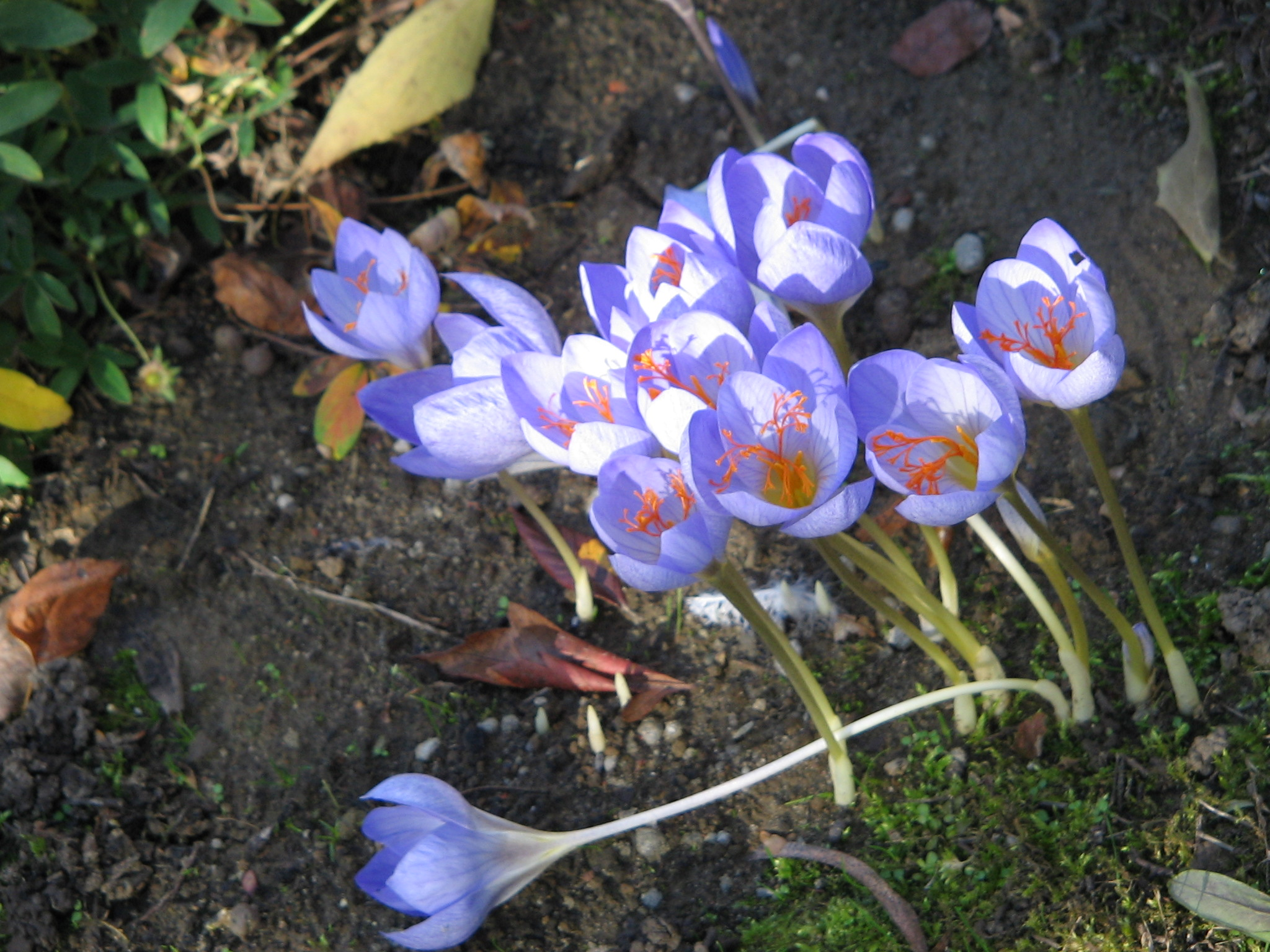 Crocus speciosus subsp. speciosus clump